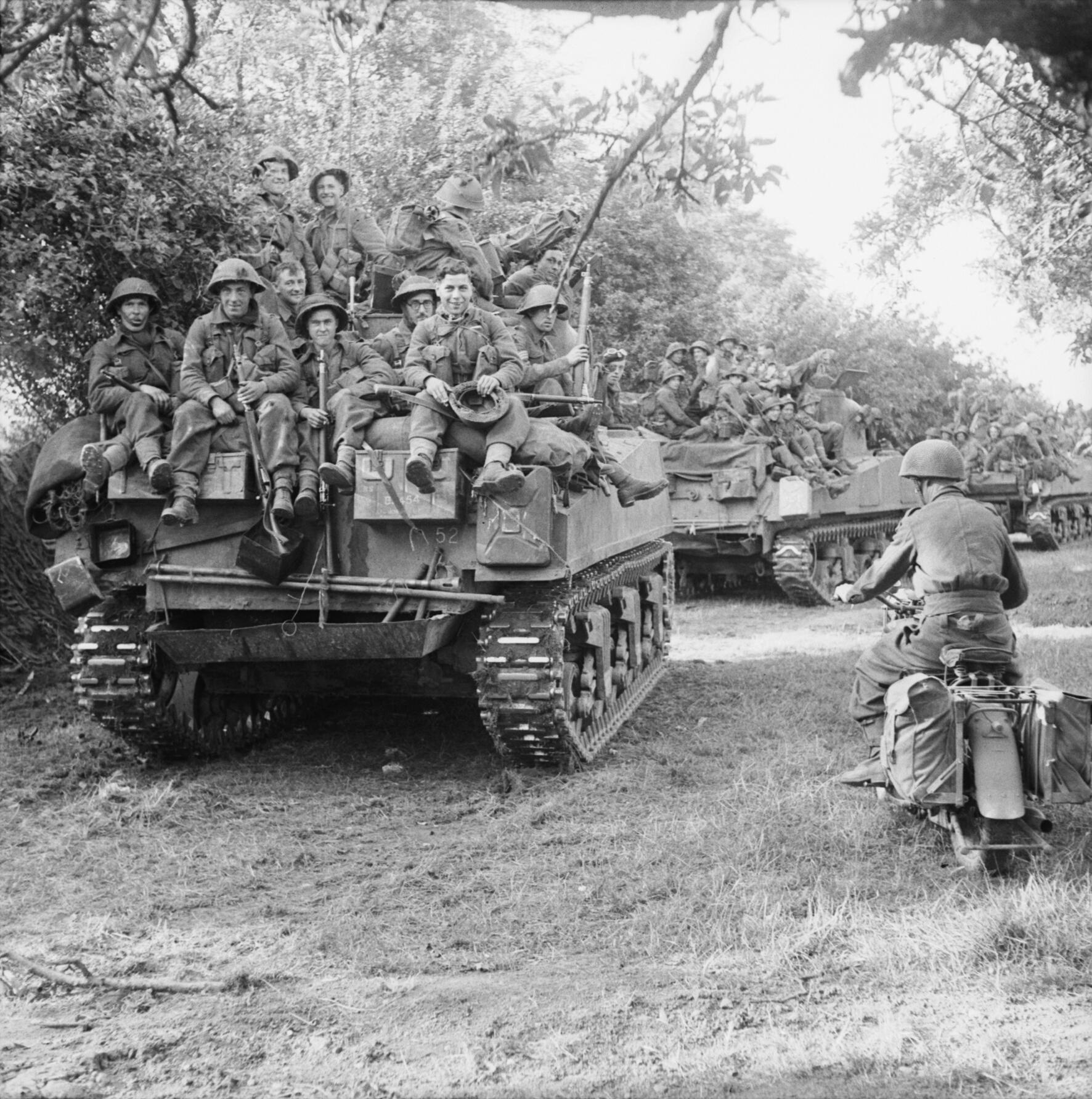 Sherman tanks of the Staffordshire Yeomanry, 27th Armoured Brigade, carrying infantry from 3rd Division, move up at the start of Operation 'Goodwood', Normandy, 18 July 1944. Sherman tanks of the Staffordshire Yeomanry, 27th Armoured Brigade, carrying infantry from 3rd Division, move up at the start of Operation 'Goodwood', 18 July 1944.